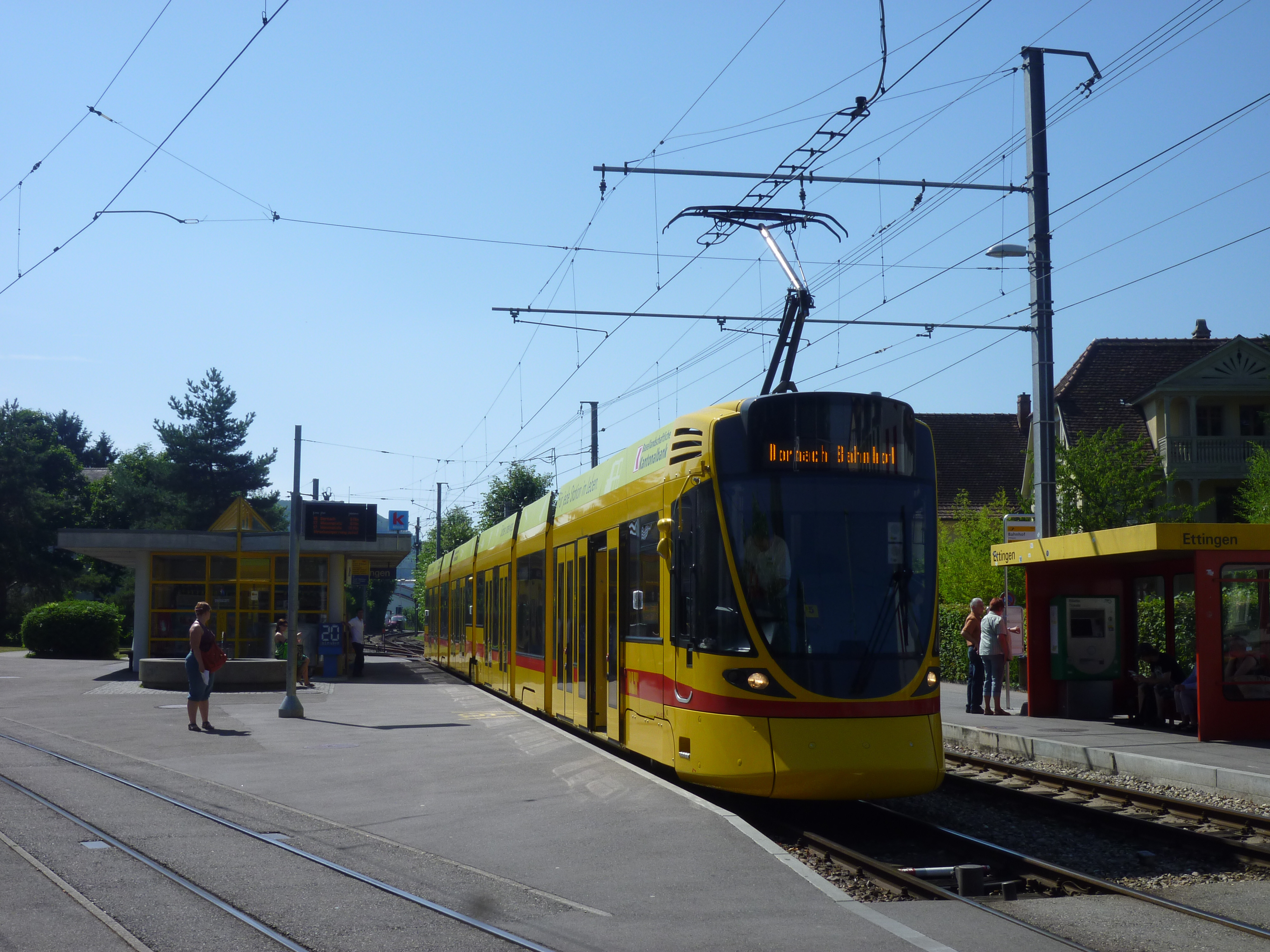 Tram stop in Ettingen, Basel-Land, Switzerland